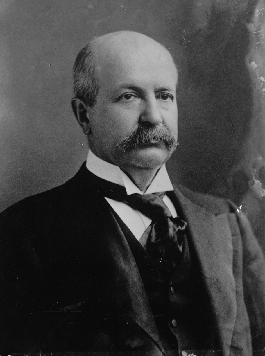 Peter Arrell Brown Widener